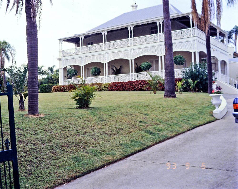 Picture of Cintra House